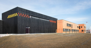 Lundebrekke_BrannstasjonTrondheim: skal krediteres fotografen Erik Børseth